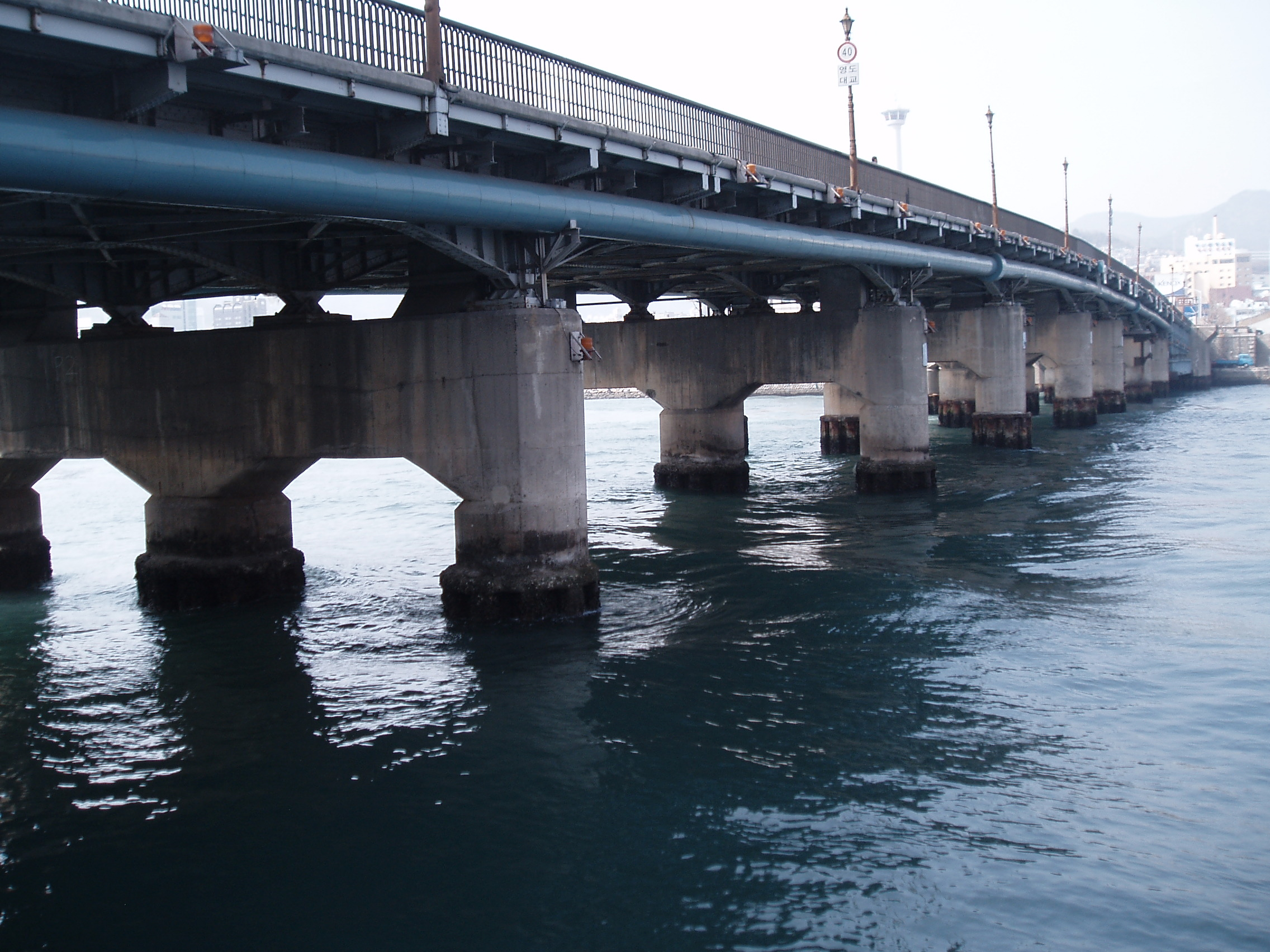 View under Yeongdo Bridge in Busan (north)